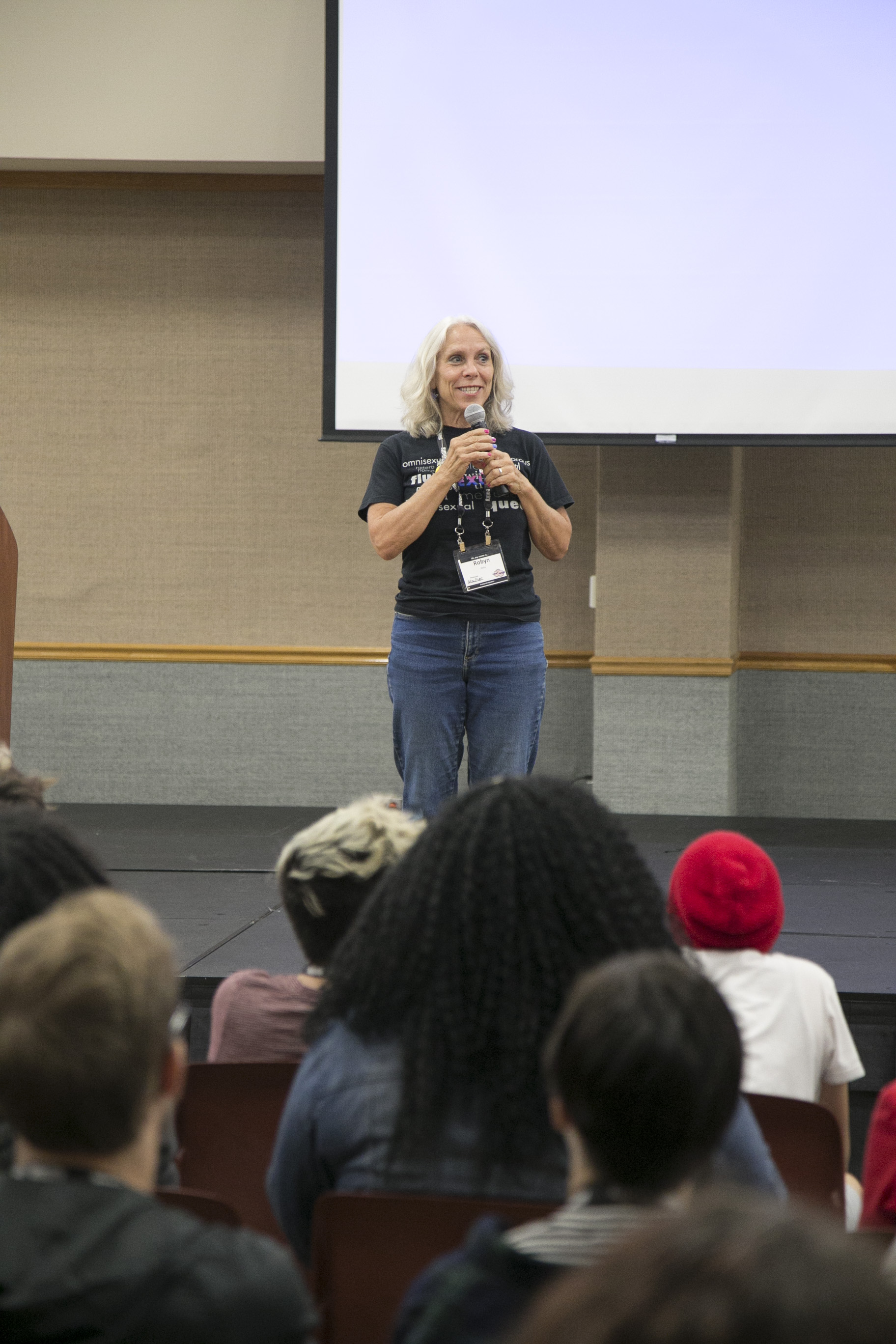 Robyn Ochs presenting at Campus Pride 2016